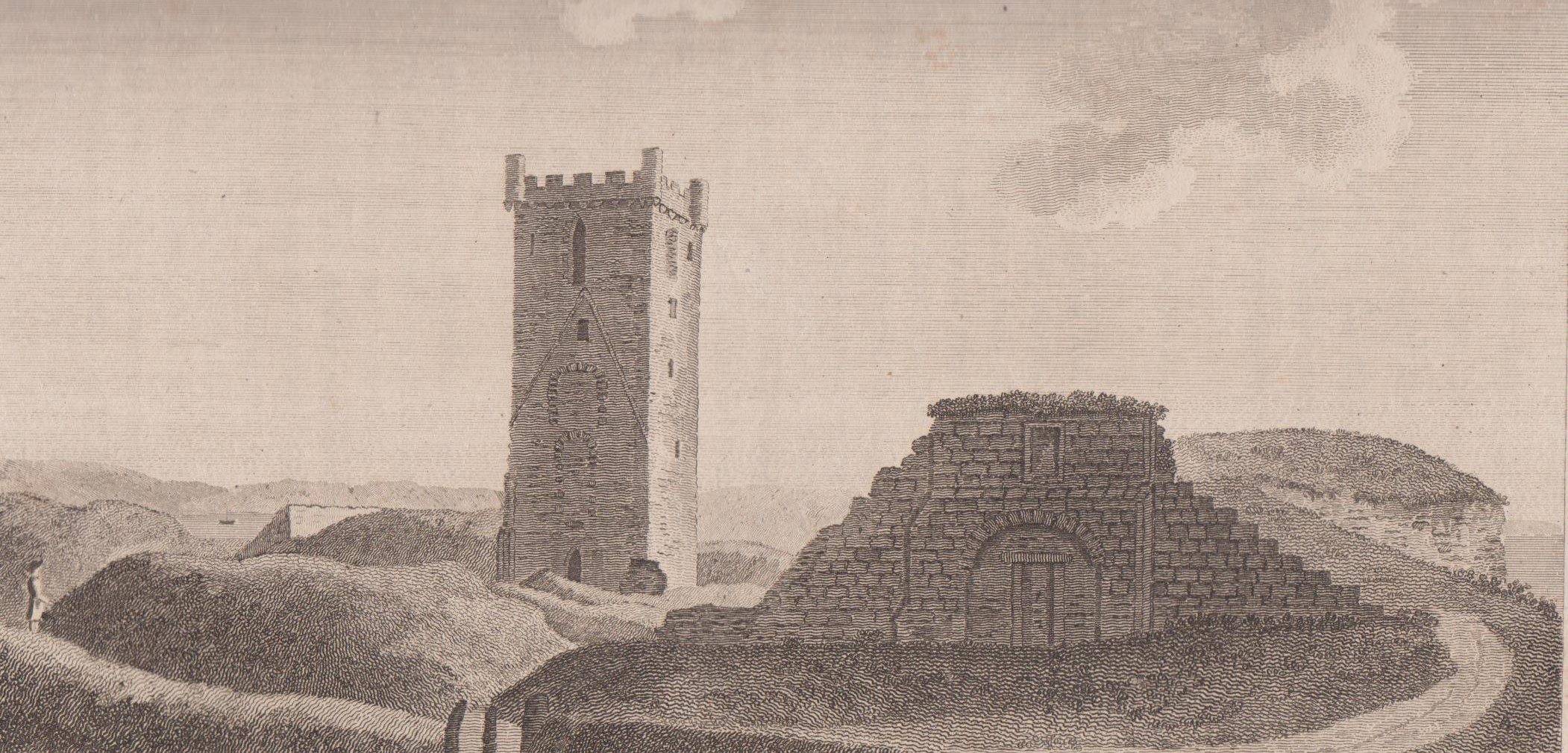 Cromwell's Castle at Montgomerieston in Ayr, South Ayrshire, Scotland.